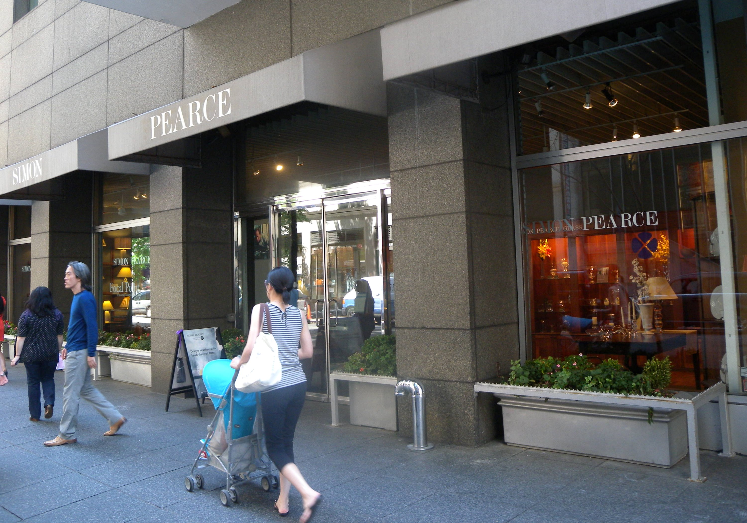 Looking south at glass shop in Park Avenue skyscraper on a sunny midday.